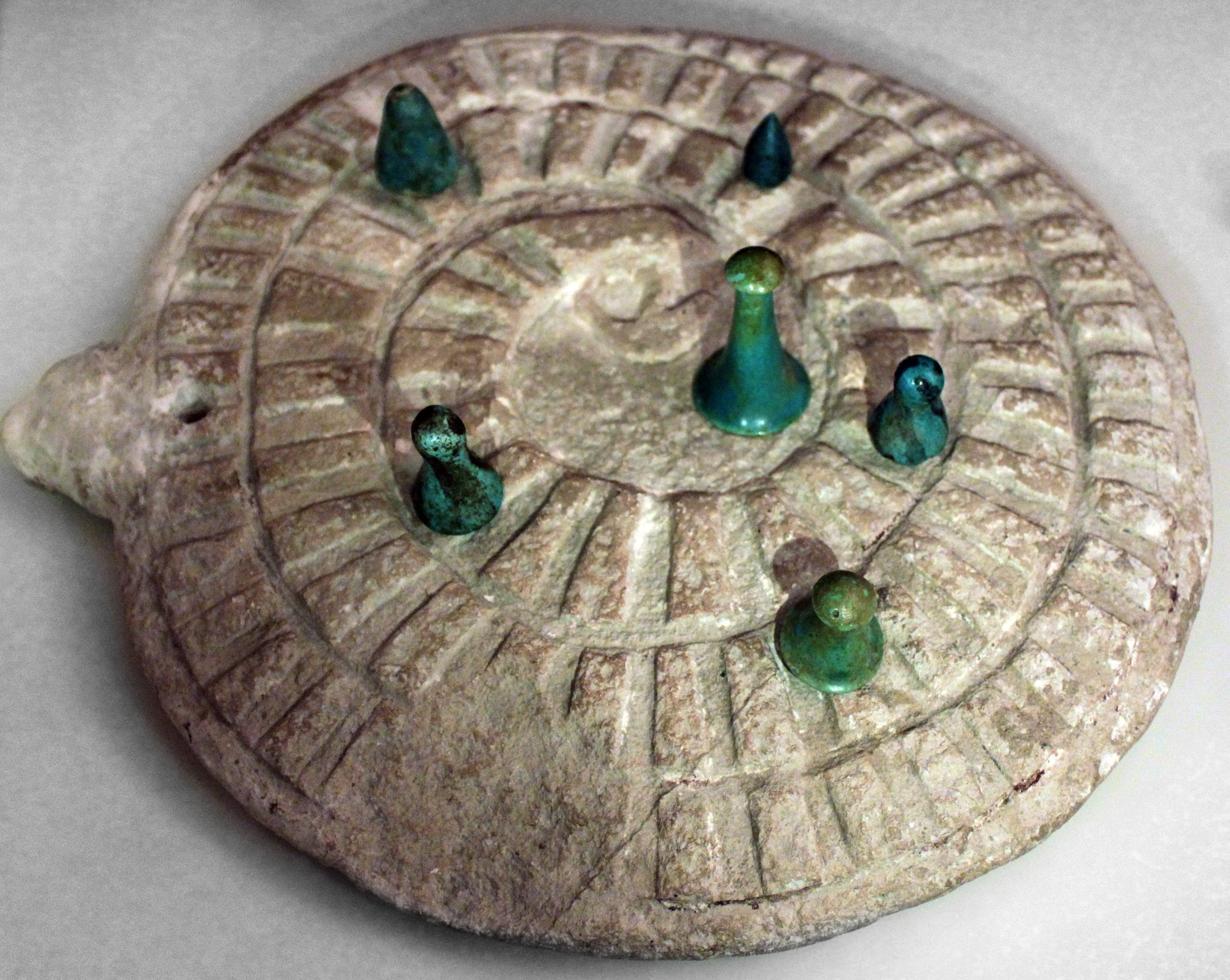 Egyptian Museum of Berlin Native nameÄgyptisches Museum und Papyrussammlung BerlinParent institutionNeues MuseumLocationBerlinCoordinates52° 31′ 12.86″ N, 13° 23′ 51.87″ E Establishedca. 1850Web page control : Q254156 VIAF: 124716958 ISNI: 0000 0001 2107 6344 LCCN: n90655341 GND: 5035773-6 SUDOC: 031948243 WorldCat institution QS:P195,Q254156 "Game of the Snake" (Mehen) with gamestones; Limestone; Early Dynastic Period (ca. 3.000 BC)